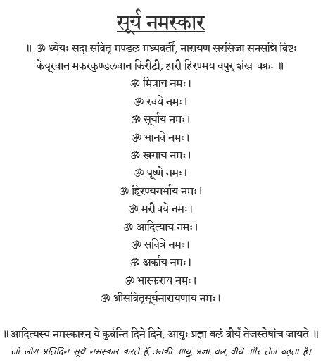 Photo giving details of all 12 Mantras of Surya Namaskar.